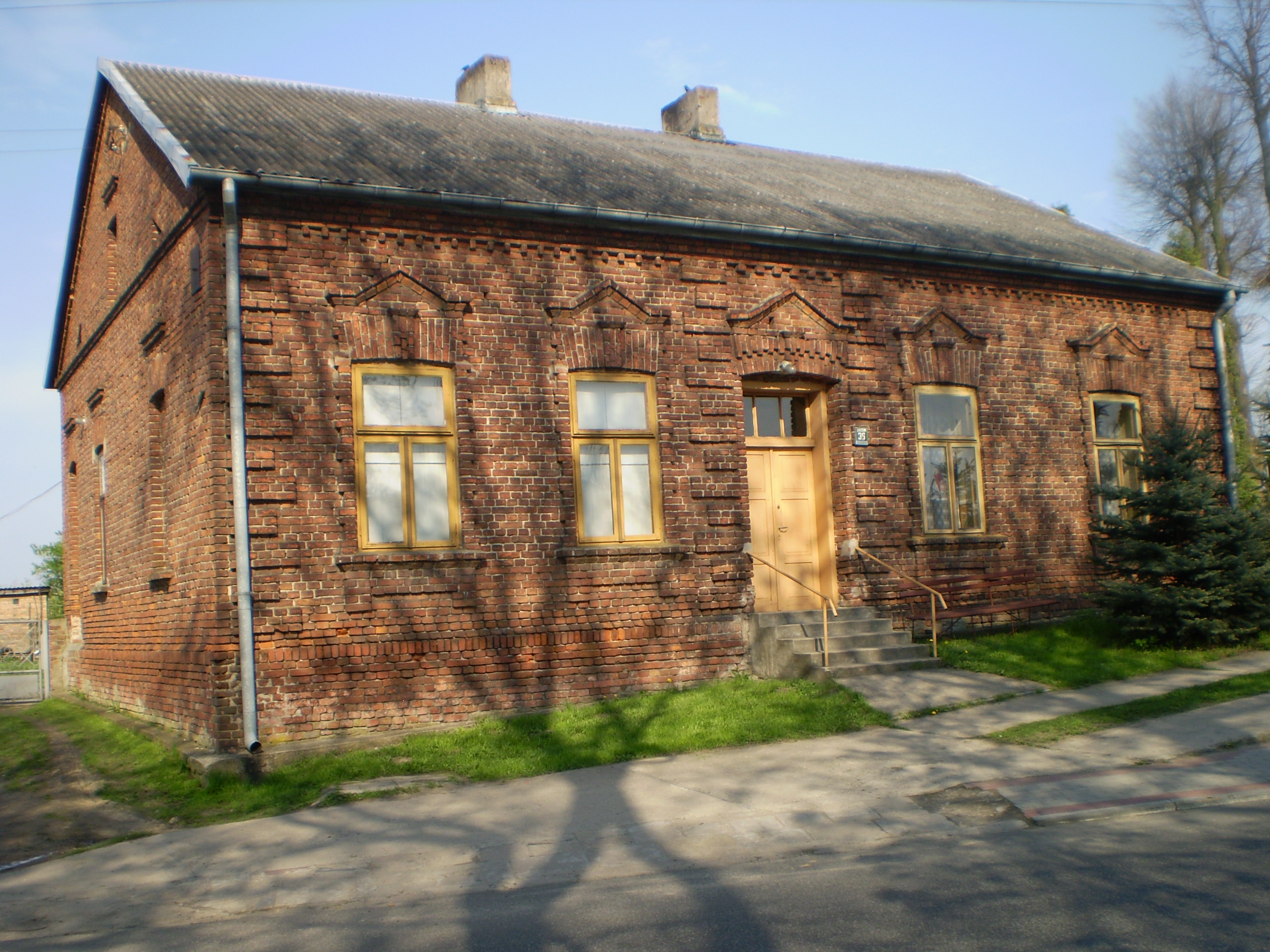 Zadzim